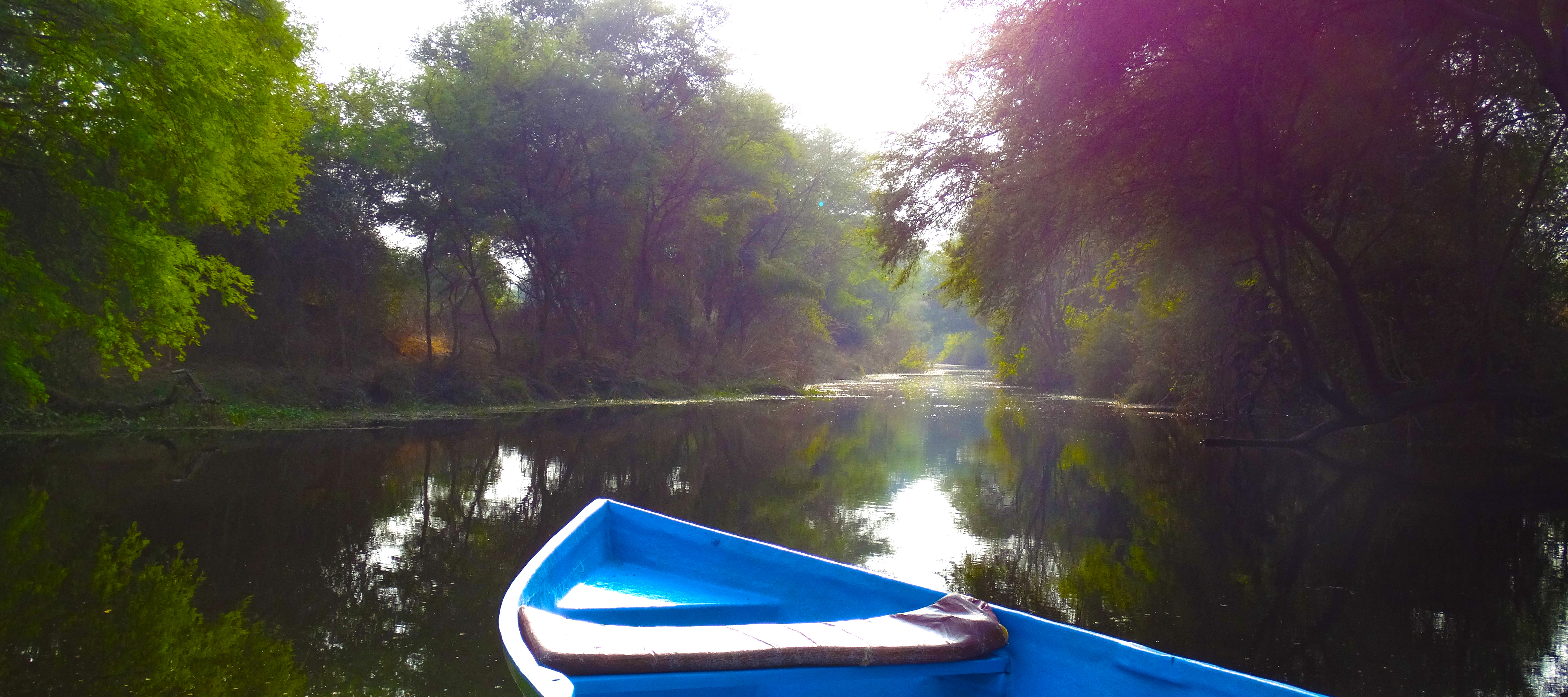 A view of the Keoladeu National park from a boat